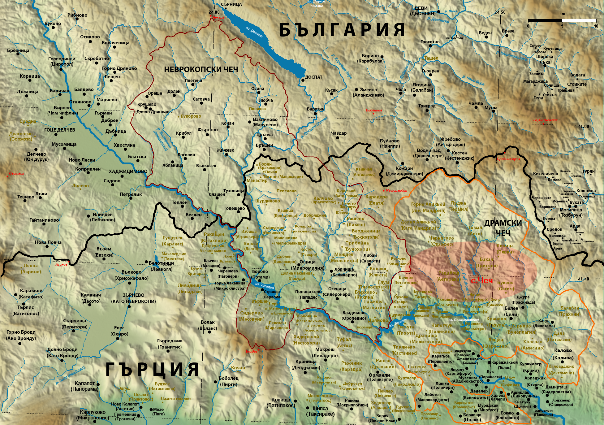 Topographic map of Chech. Topography: SRTM Place names in Greece: Todor Simovski Chech borders: Vasil Kanchov Software: 3DEM